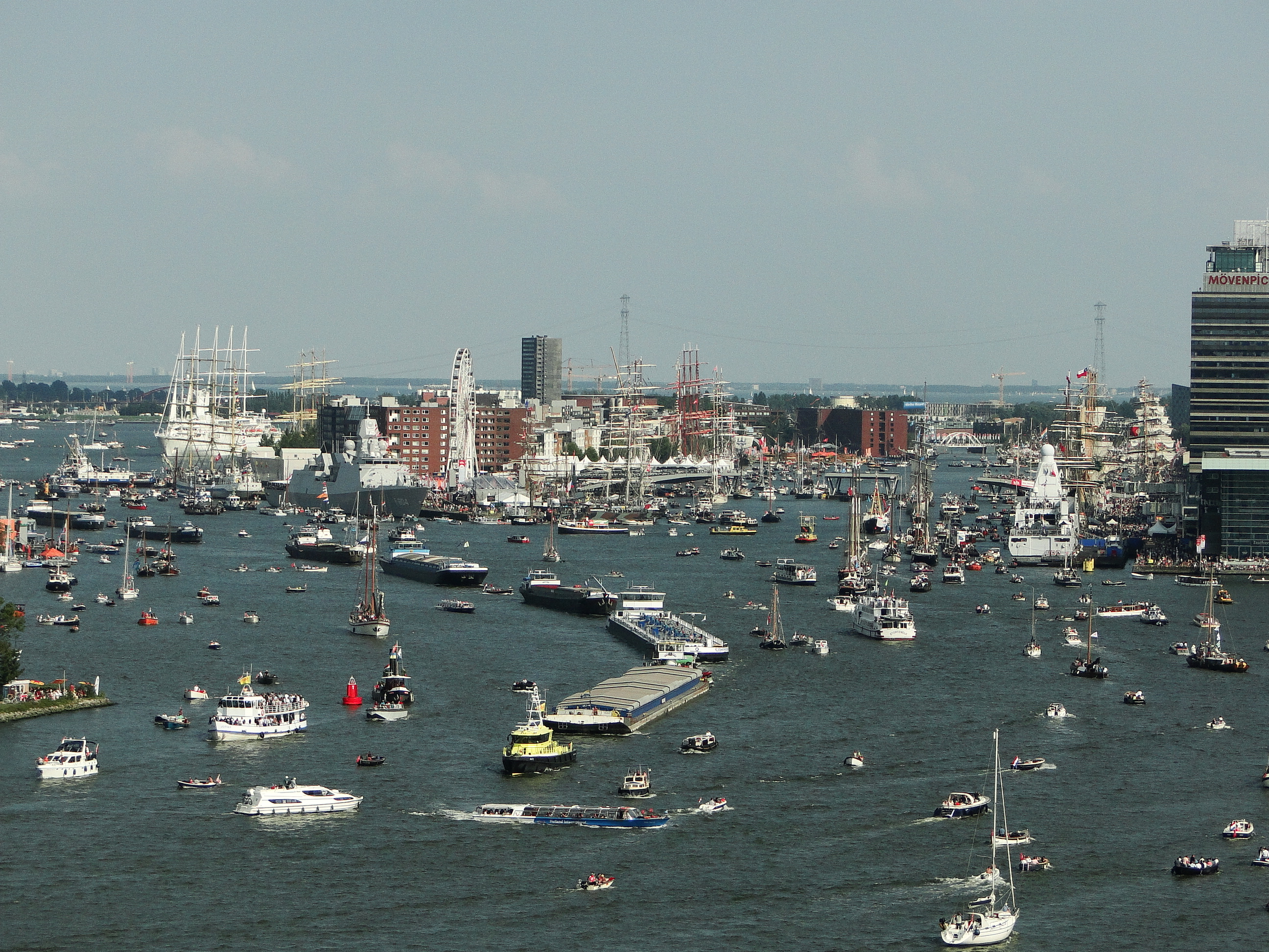 Cargo ships pass the city center of Amsterdam on the IJ in a convoy led by an harbour authority boat